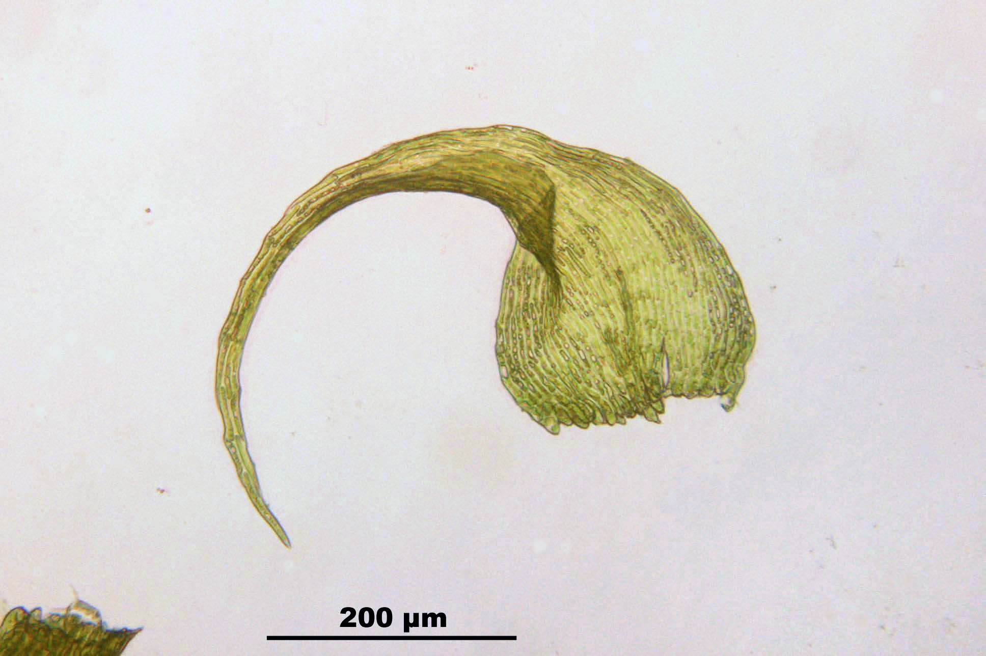 Hypnum sauteri